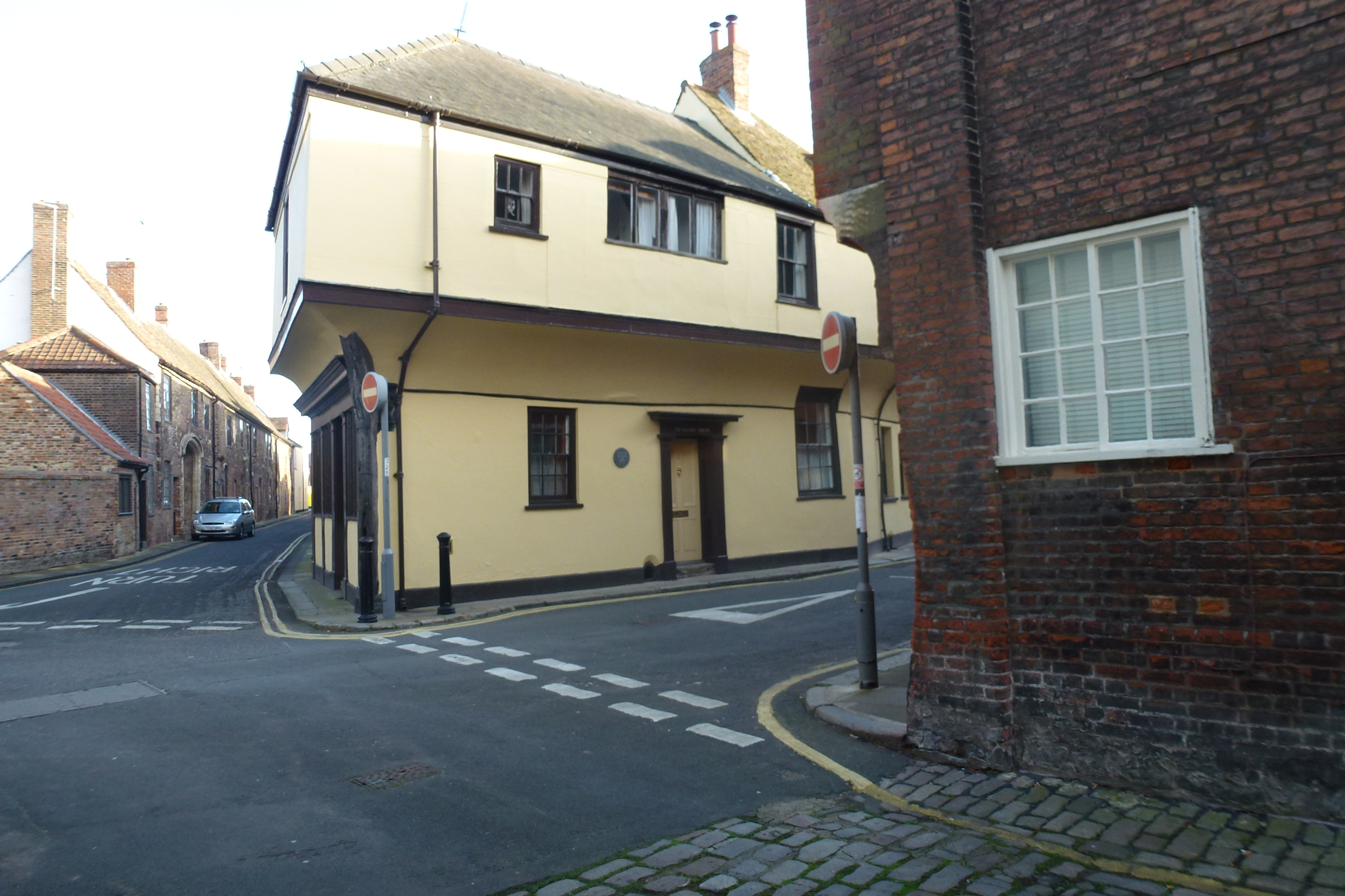 The Valiant sailor in King's Lynn was a public house, now a private residence. The artist Walter Dexter lived here and is commemorated by a blue plaque.